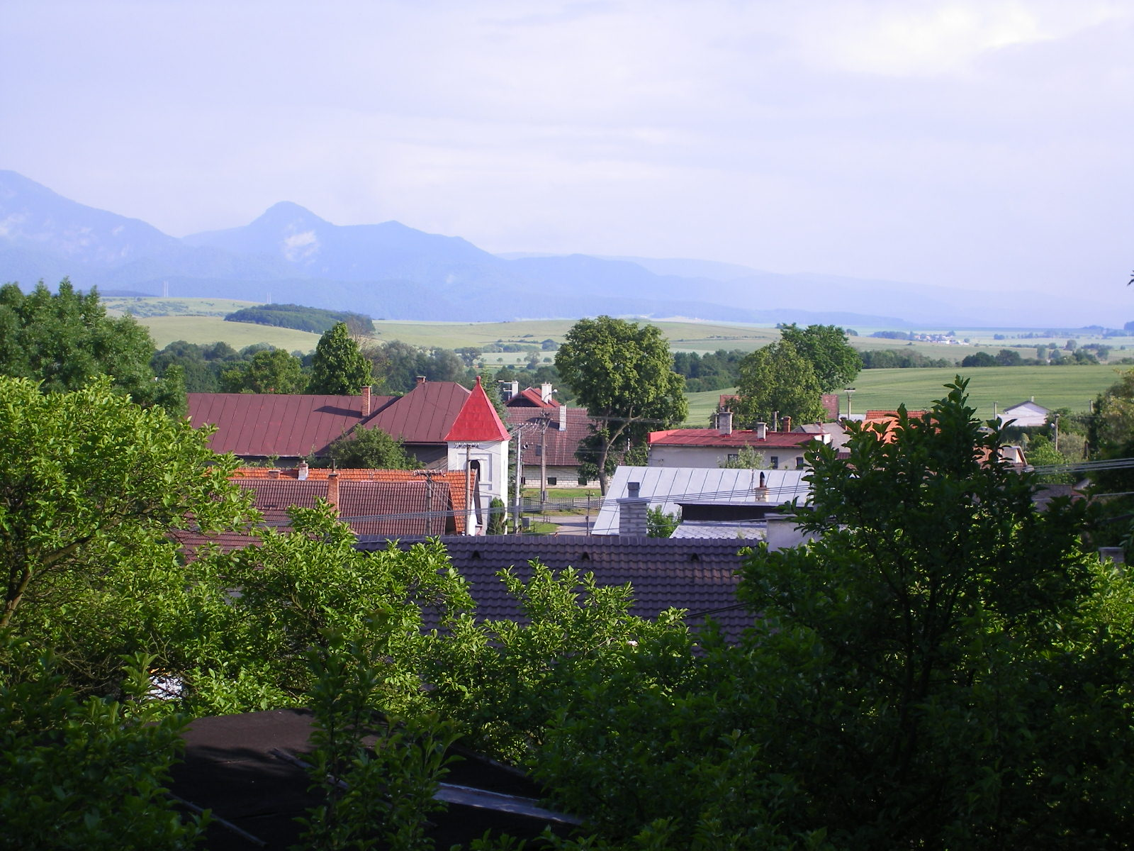 Turčiansky Peter - general view of the village from the catholic church